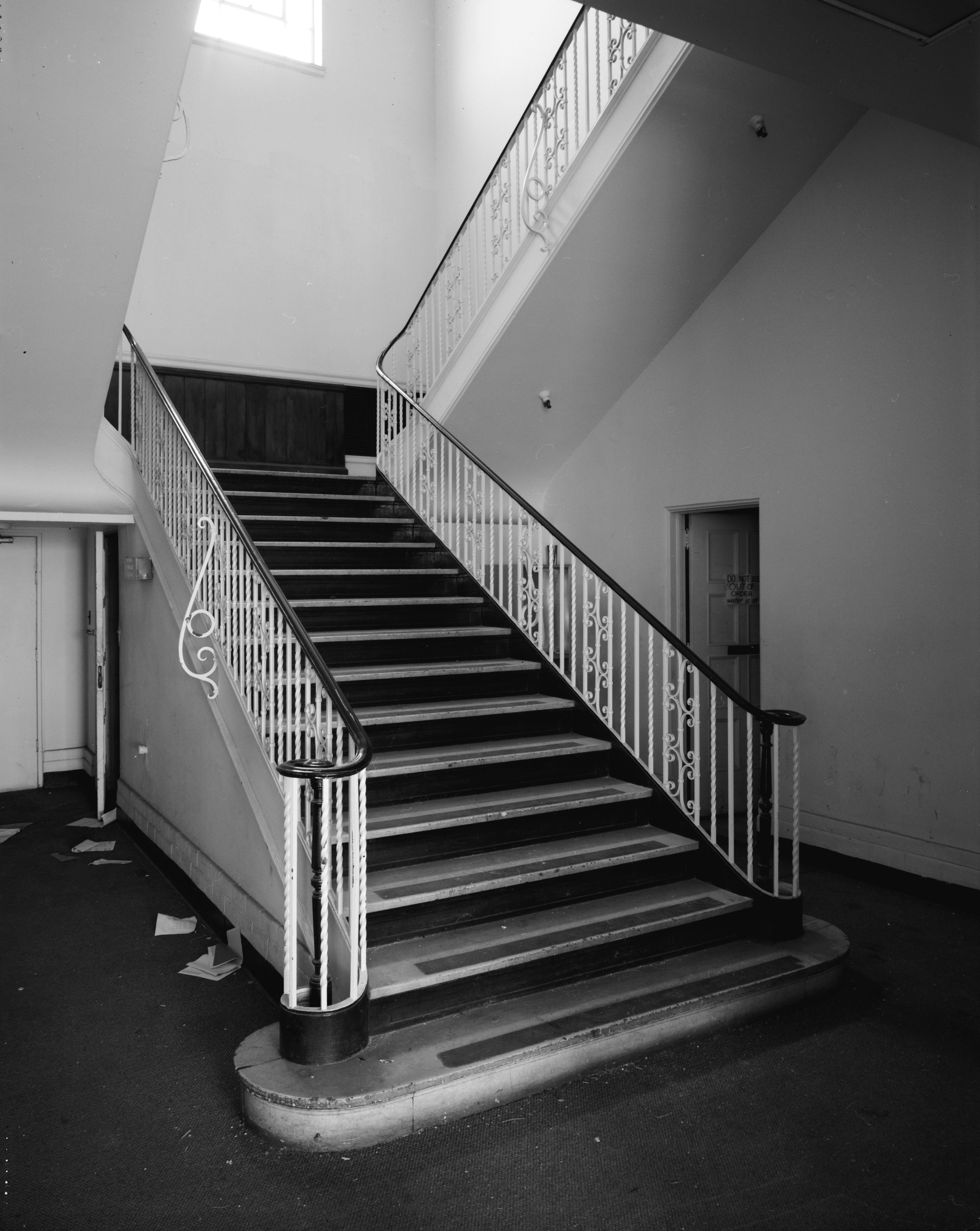 Stairway in Ford plant in LA from HABS; Ford Motor Company Long Beach Assembly Plant, Asse, 700 Henry Ford Avenue, Long Beach, Los Angeles County, CA; Staircase, lobby of administrative offices; view to southeast. HAER, CAL,19-LONGB,2-A-16